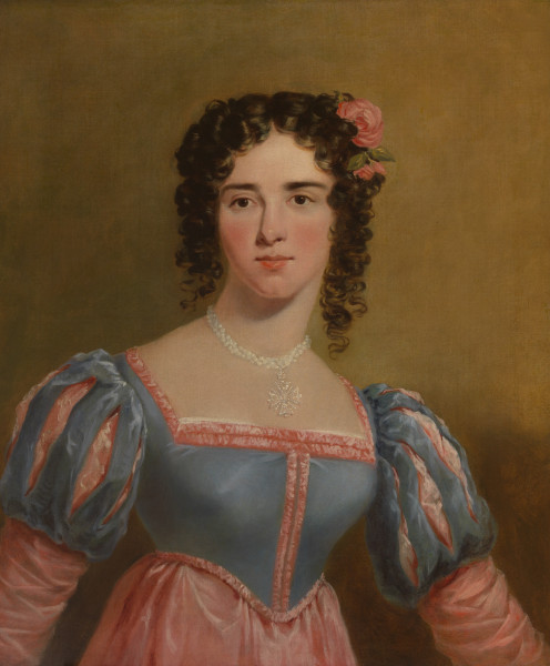 Miss Graddon by William Brockedon in costume as "Linda" as she appeared in 1824 in the opera "Der Freischutz"